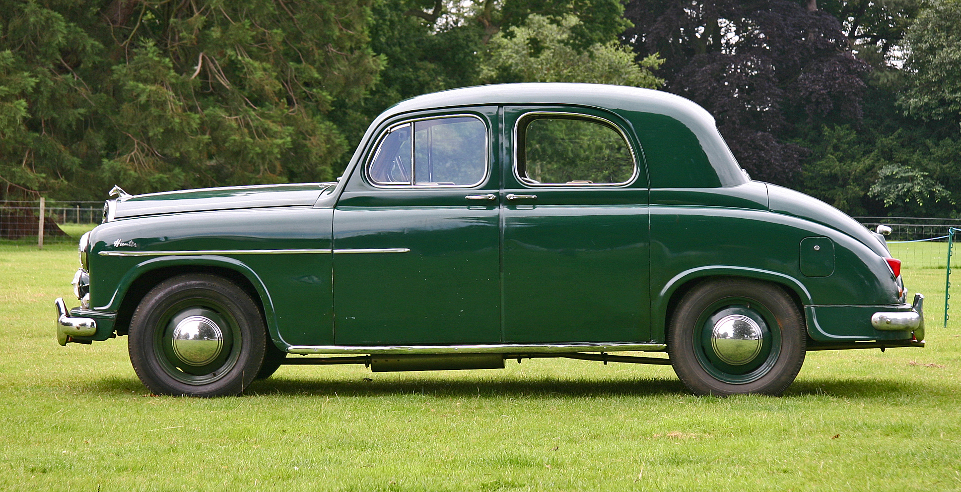 Singer Hunter. The Hunter (and SM1500) were quite advanced '3box' body designs when launched in 1947. The overhead cam 1500 engine was also advanced, but with Singer in financial difficulties, the writing was on the wall.